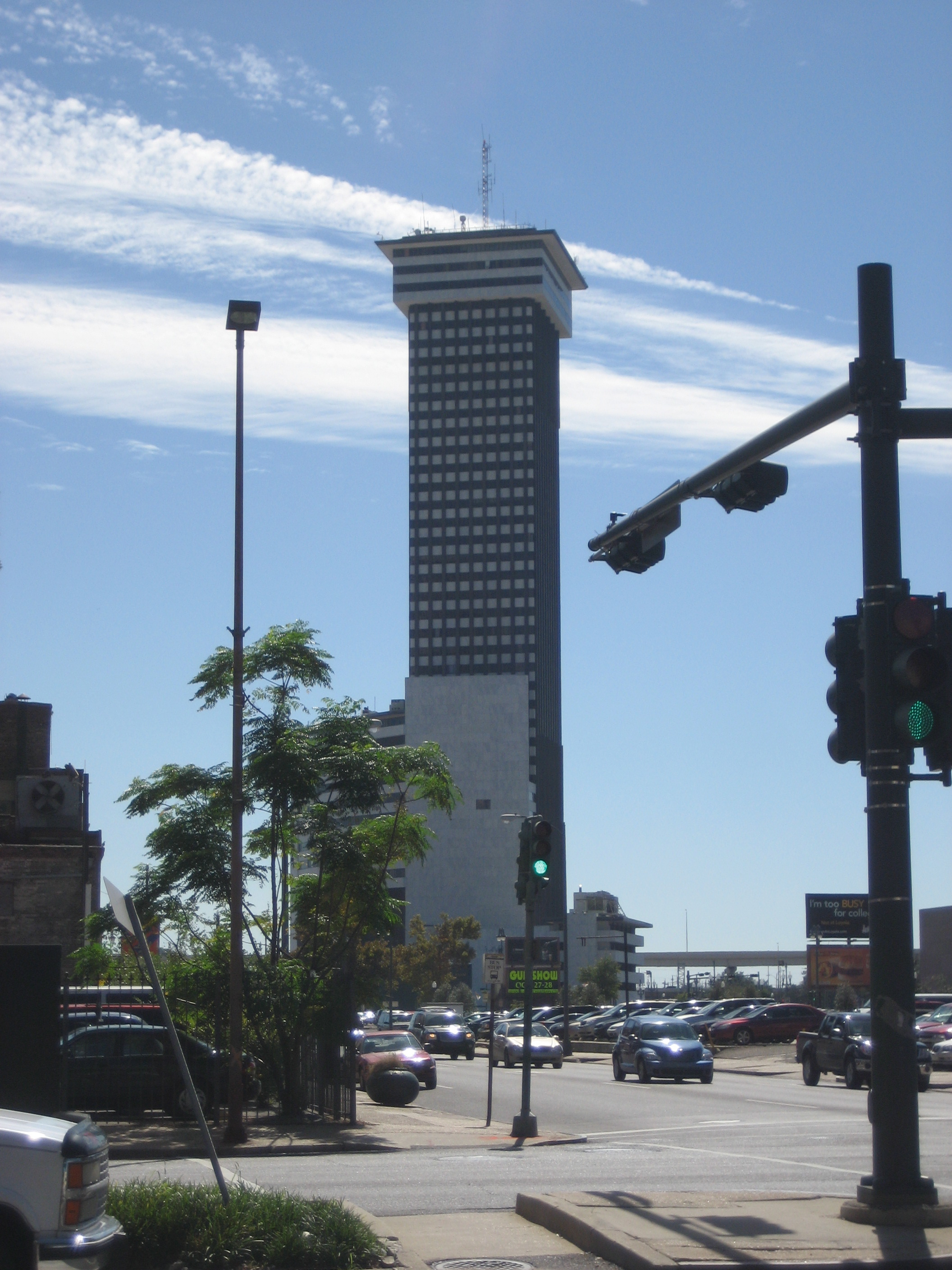 New Orleans Central Business District. View of Plaza Tower.